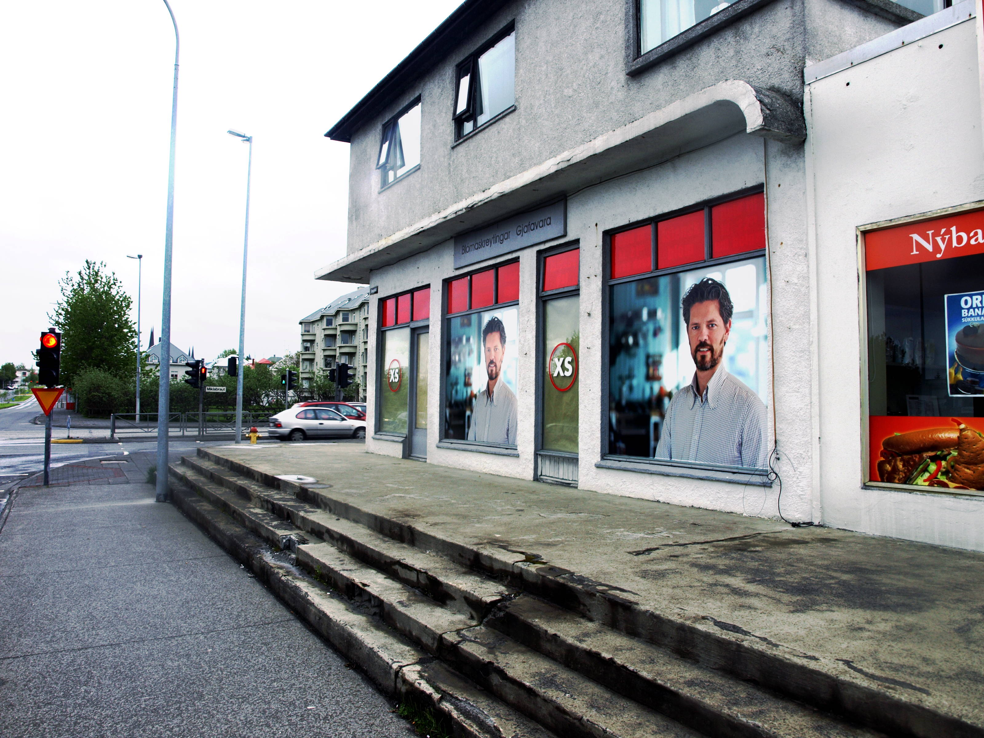 Advertisment for Dagur B. Eggertsson, candidate for Samfylkingin in the Reykjavík municipal elections May 31th 2014.